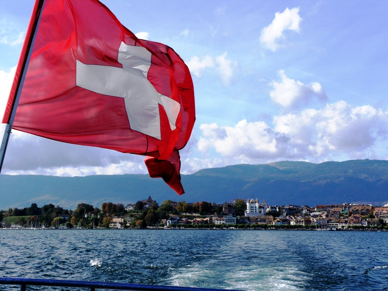 Nyon, Lake Geneva, Switzerland